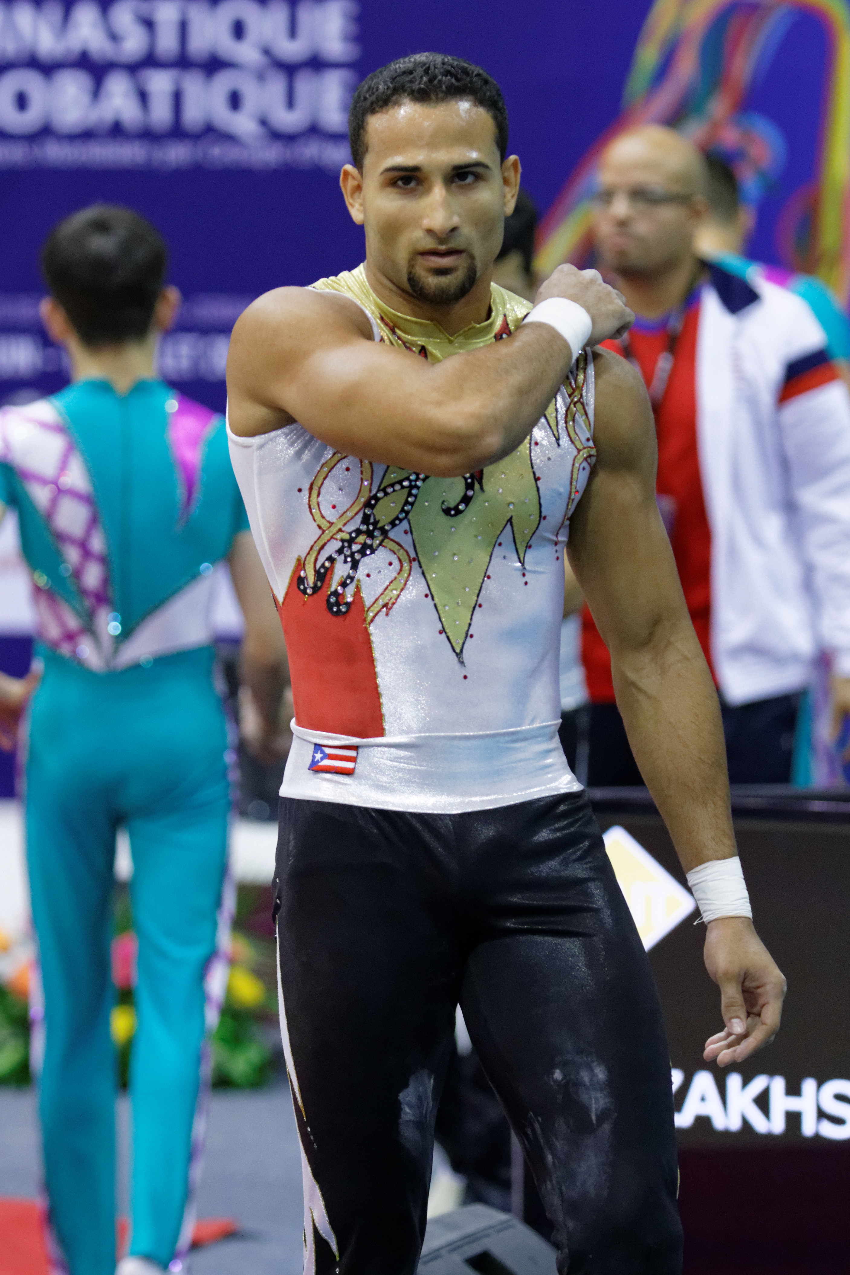 2014 Acrobatic Gymnastics World Championships, 10th-12 July, Levallois-Perret, France. Qualifications: men's pair. Puerto Rico.